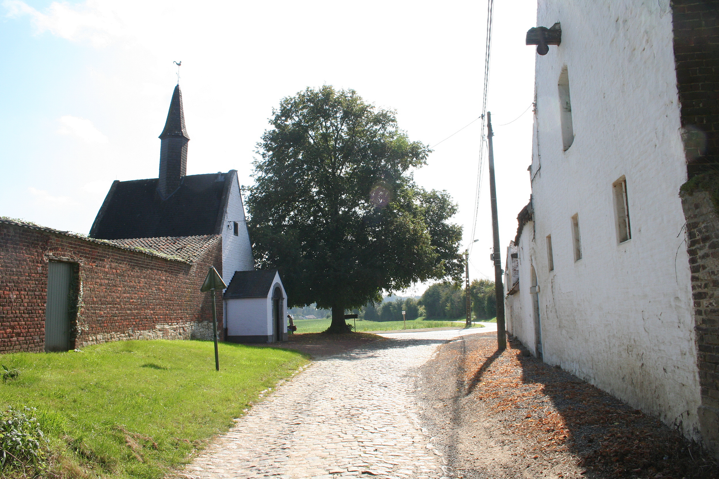 Mille (Belgium), the St. Cornelius chapel and the typical regional farm called « Hof ter Cammen » (XVII/XVIIIth centuries).